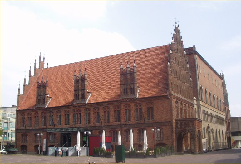 Old Town Hall, hannover Germany - taken by Pschemp on vacation